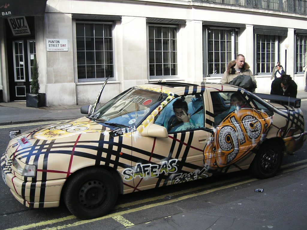 A Chav Mobile. One of the cars at the GLC Spectacular event to publicise Goldie Looking Chain's single release. There were hoardes of pretend Chavs and Chavettes, plus chav mobiles.